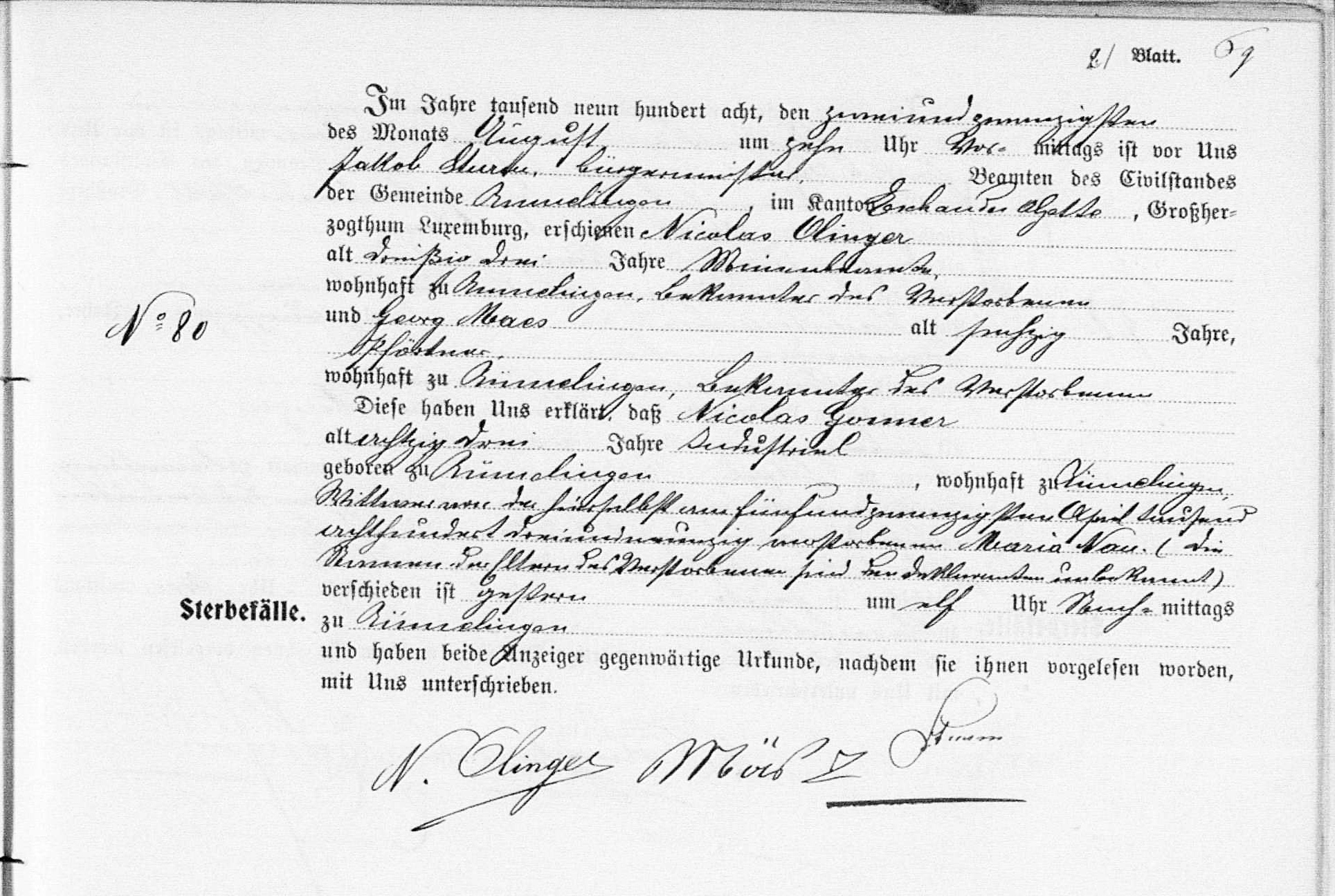 Death certificate of Nicolas Gonner